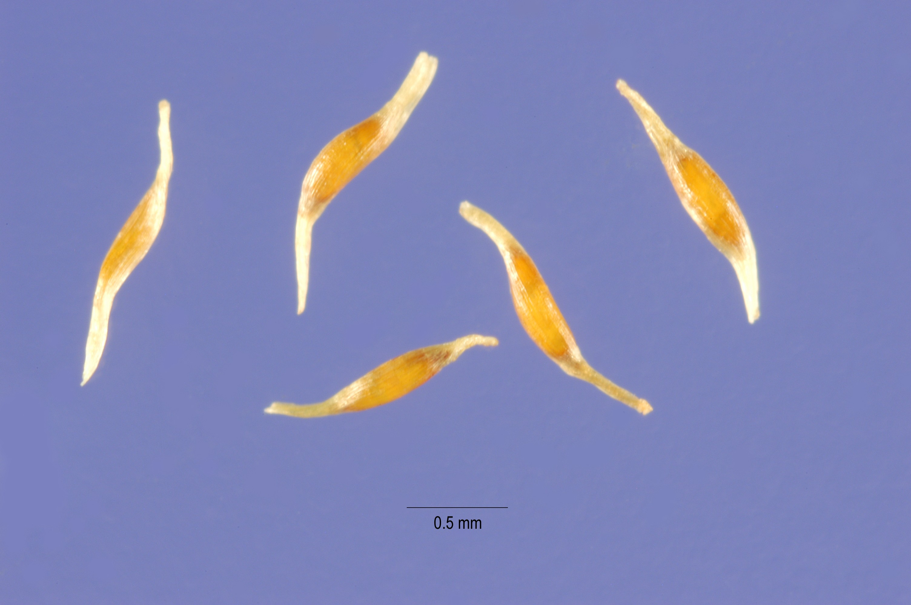 Juncus canadensis seeds